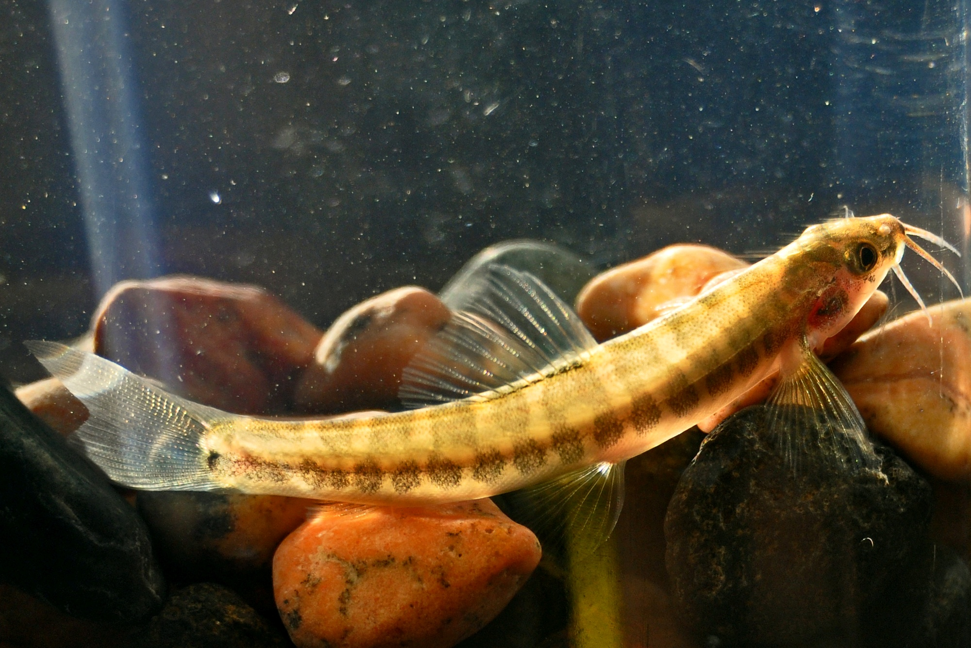 Nemacheilus chrysolaimos, from Cihideung Hilir, Bogor, West Java, Indonesia.